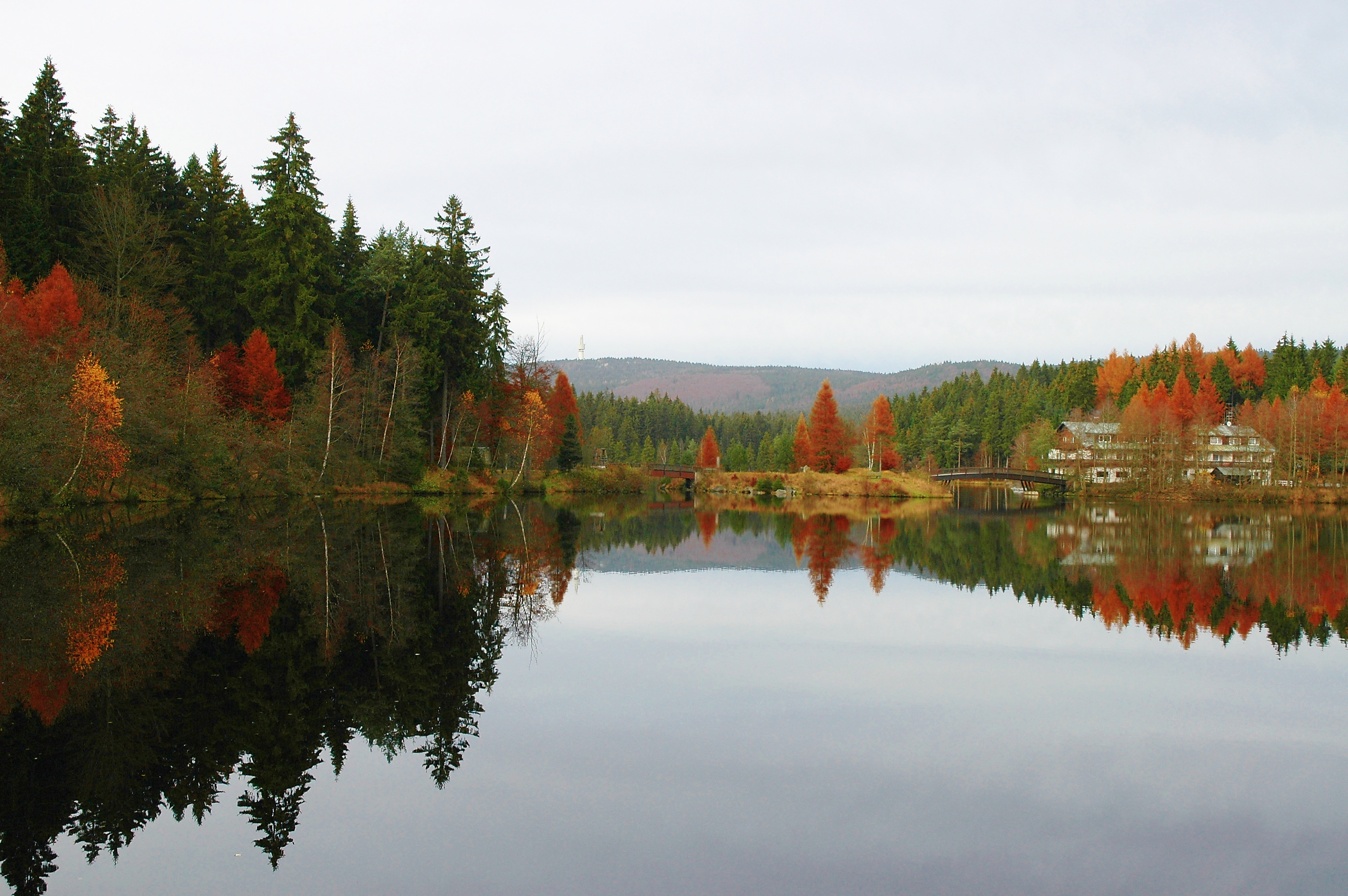 autumn view over the German / Bavarian lake "Fichtelsee" (from south)